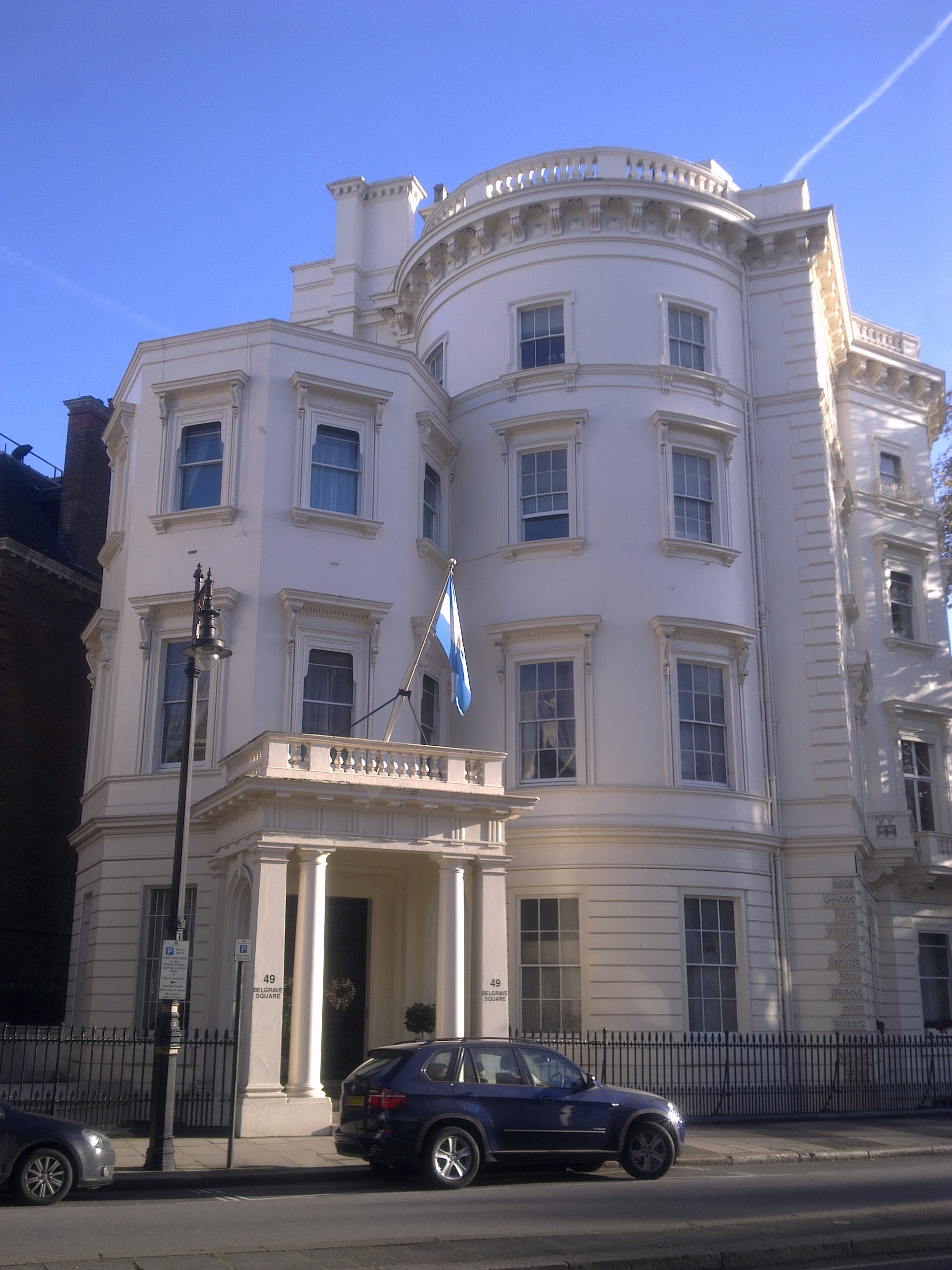 Argentine ambassador's residence, London